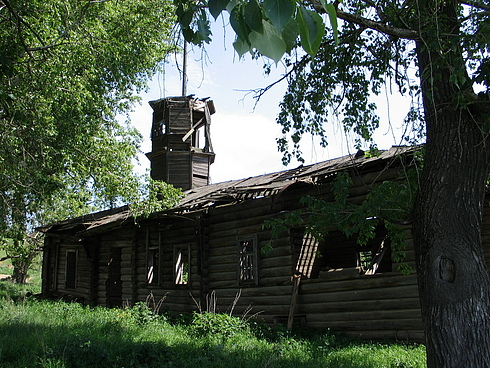 old mosque village Azeevo, Ryazan region